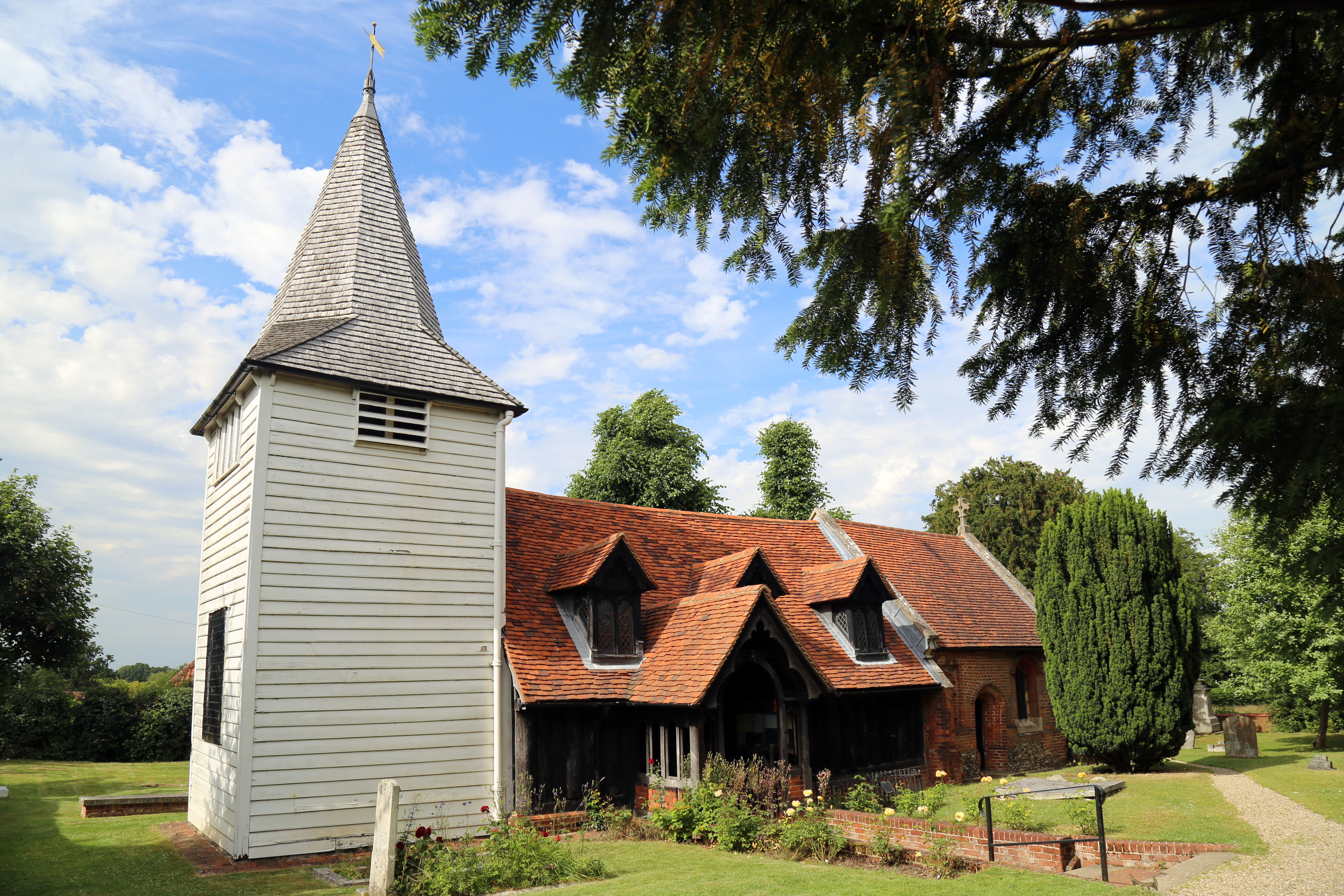 St Andrew's parish church, Greensted, in the civil parish of Ongar, Essex, England, seen from the churchyard footpath at the southwest